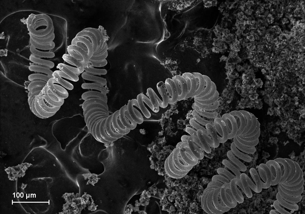 SEM image of a tungsten filament from incandescent light bulb.This image is suitable with this wikipedia article